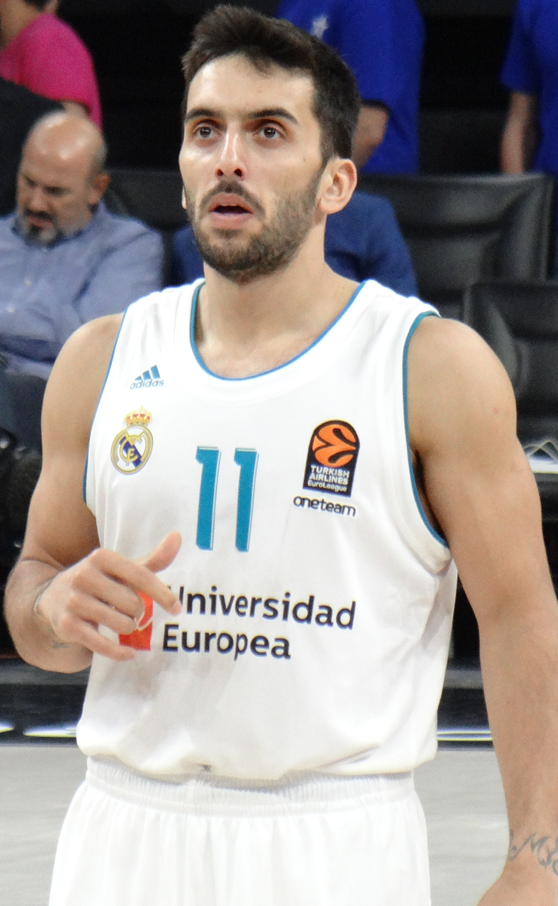 Facundo Campazzo 11 Real Madrid Baloncesto Euroleague 20171012